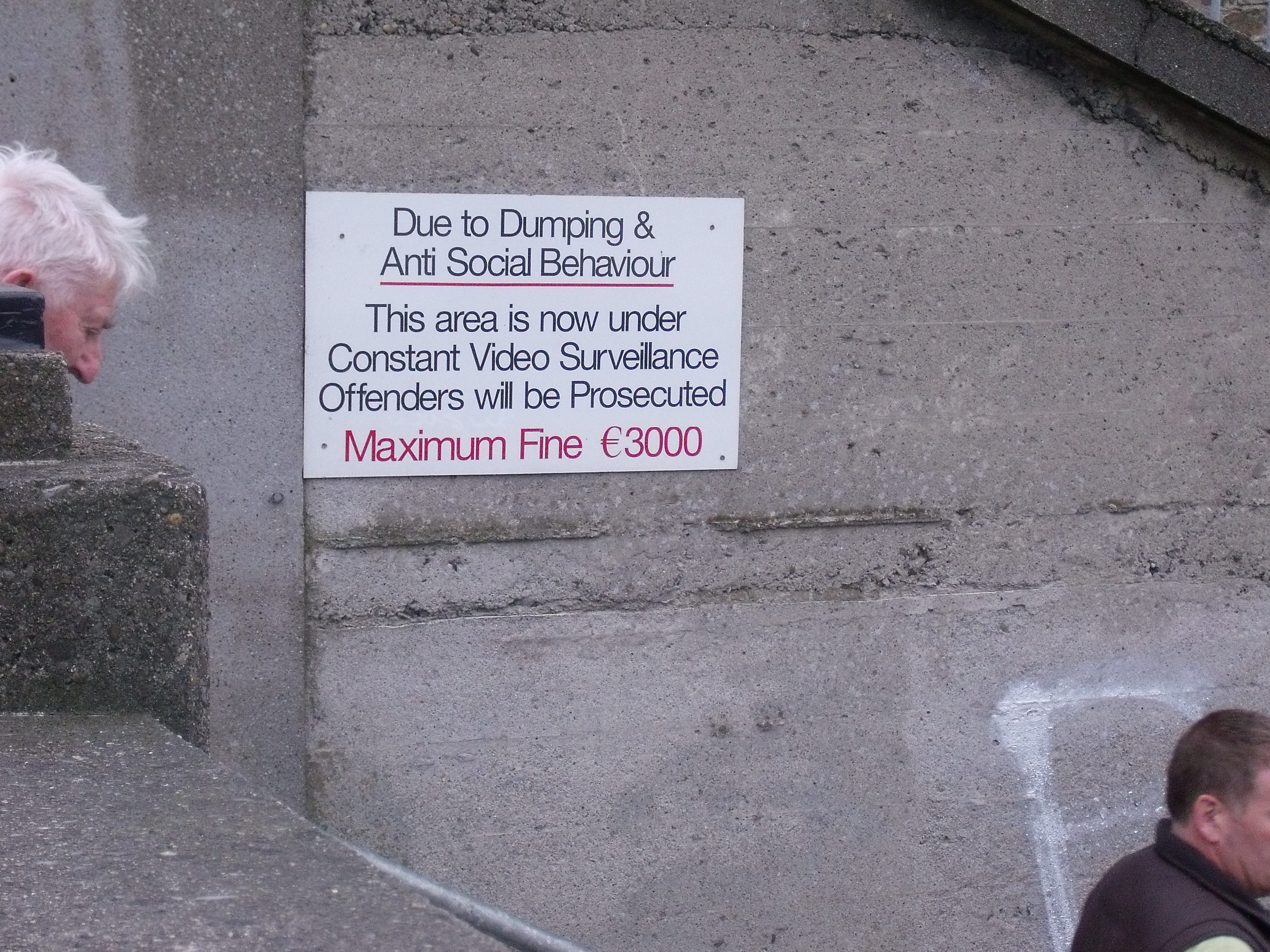 Fine for litter